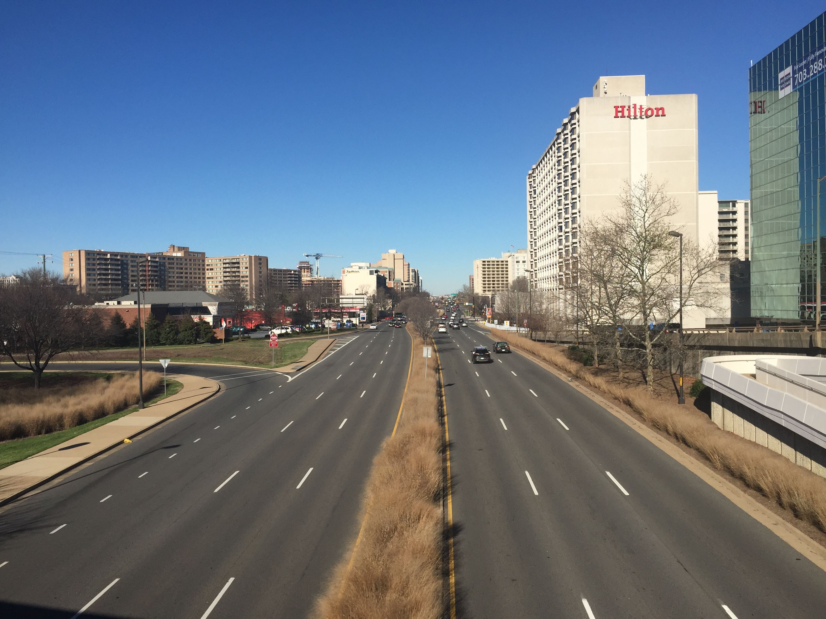 View north along U.S. Route 1 (Jefferson Davis Highway) from the overpass for Virginia State Route 233 (Airport Viaduct) in Crystal City, Arlington County, Virginia